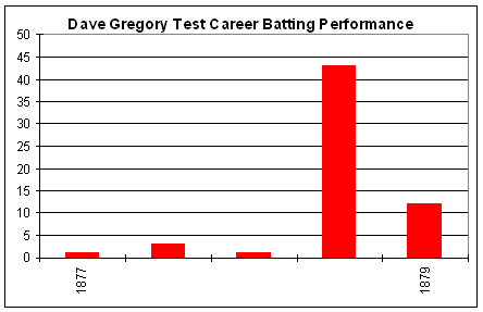 Test batting chart of Dave Gregory. Red columns are the runs in the innings. Blue dots indicate not outs. Blue line is average in the last ten innings. Thanks to Raven4x4x for providing the template.